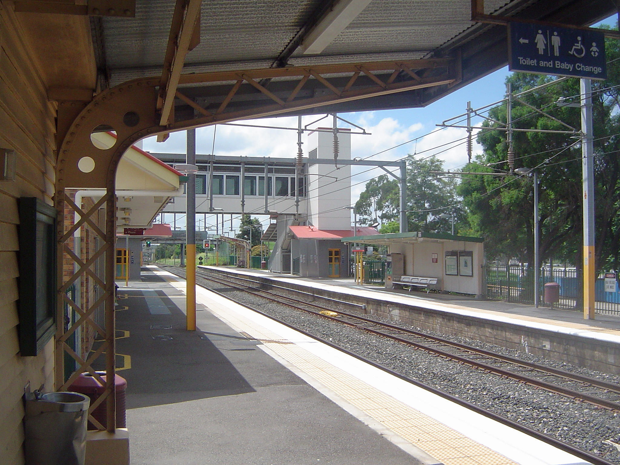 Photo of Redbank railway station looking east.